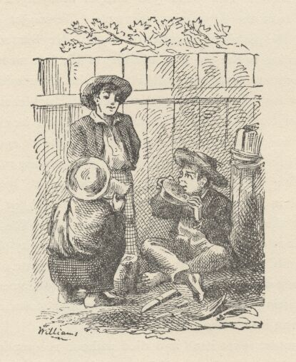 Illustrations de The Adventures of Tom Sawyer, 1876.